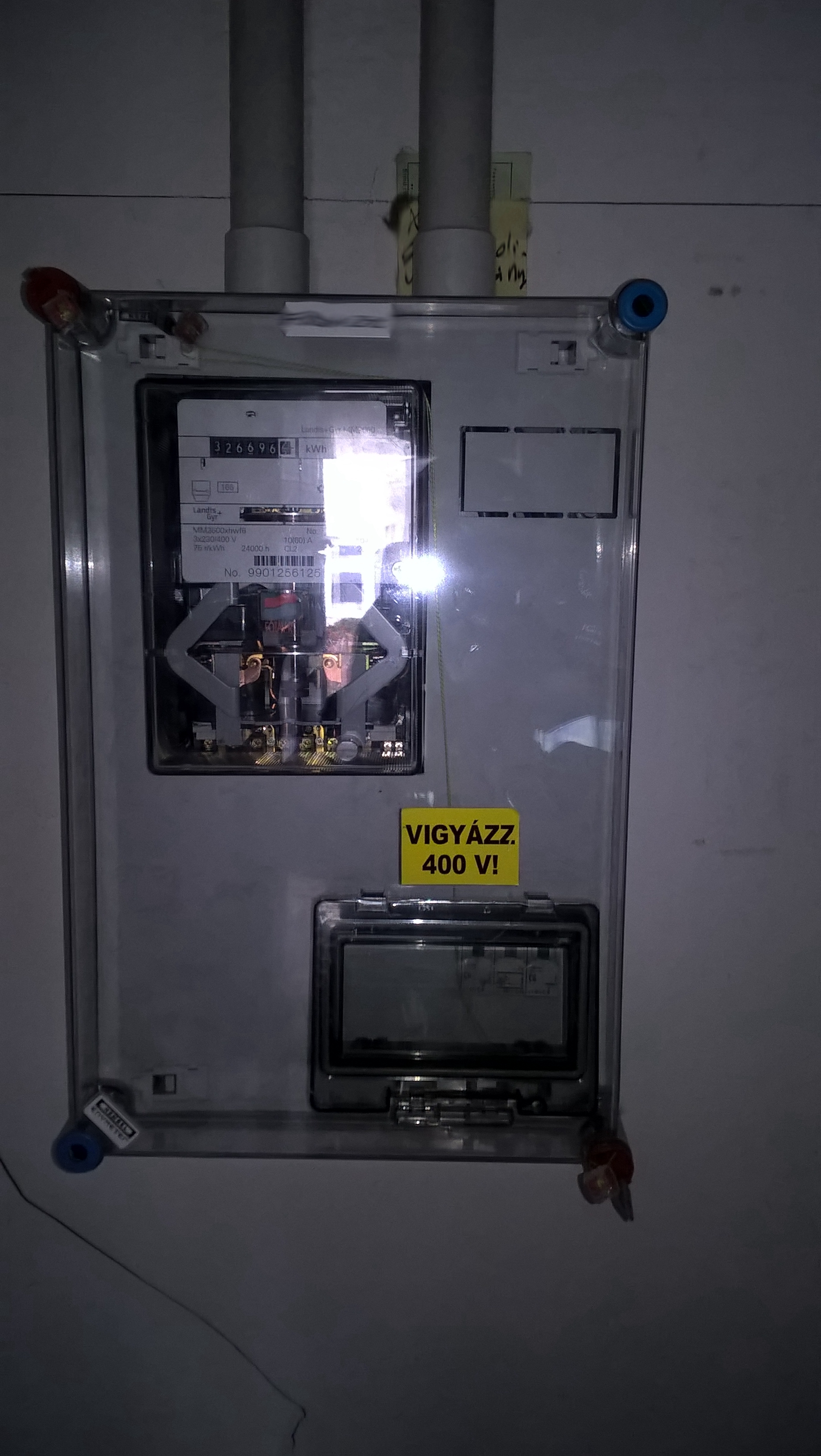 Drei-Phasen-Leistungsmesser, Schrankgehäuse